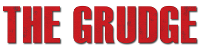 Logo of The Grudge series.